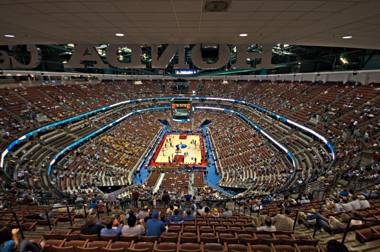 Honda Center in Anaheim, California on March 22, 2008. #1-seeded UCLA faced #9 Texas A&M as part of the 2008 NCAA Men's Division I Basketball Tournament. UCLA defeated Texas A&M 51-49 to advance to the Sweet Sixteen.